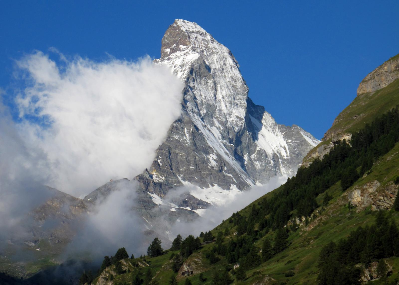 Banner Cloud formation on the Matterhorn (4478m)